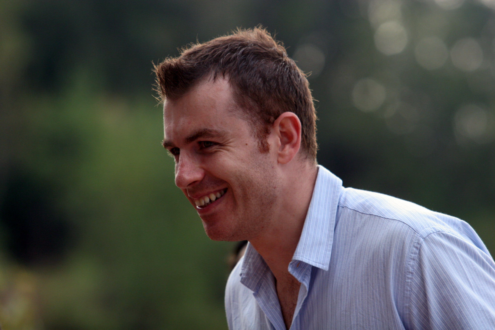 Yoav Behr